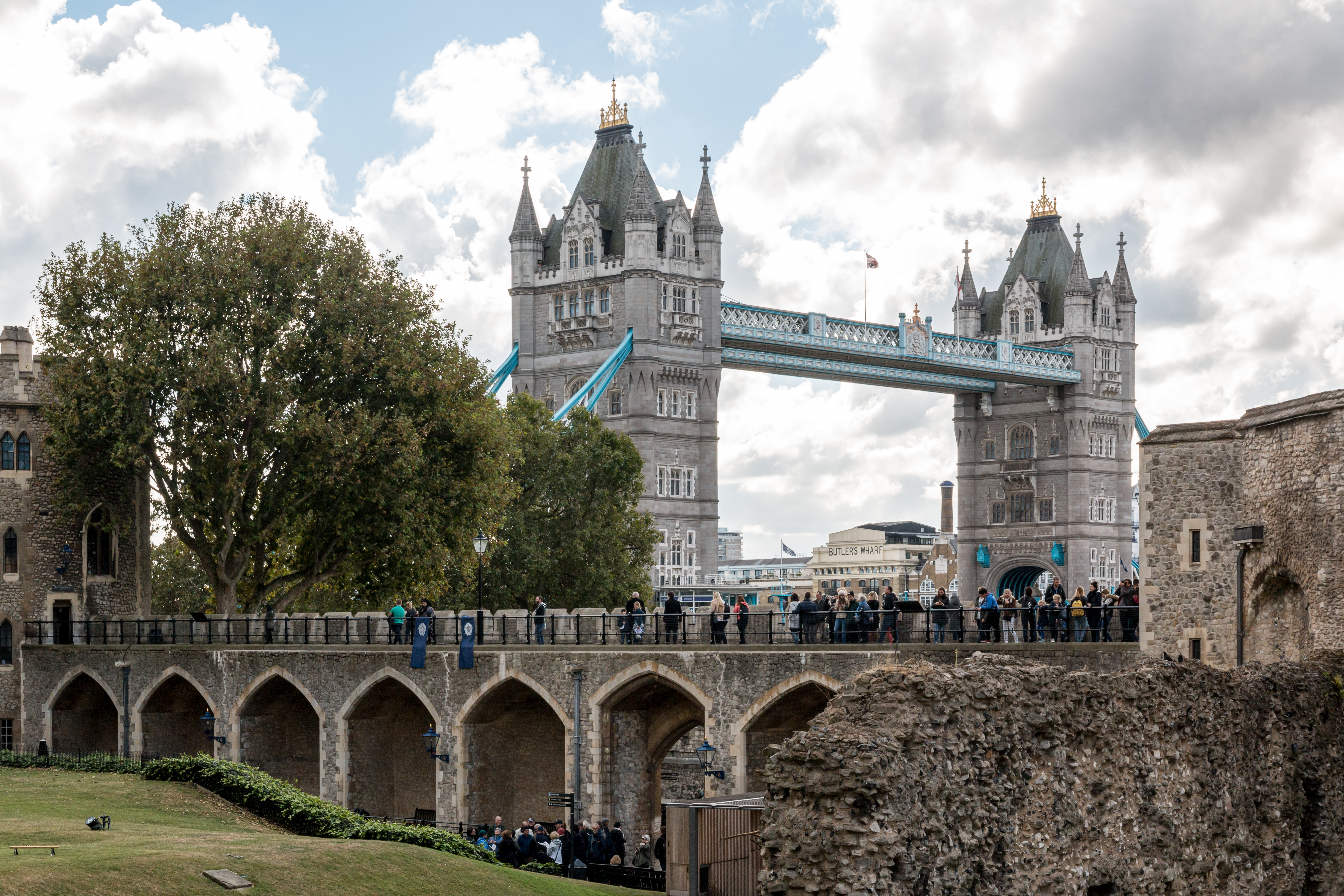 Tower Bridge, Tower of London, London, England, United Kingdom